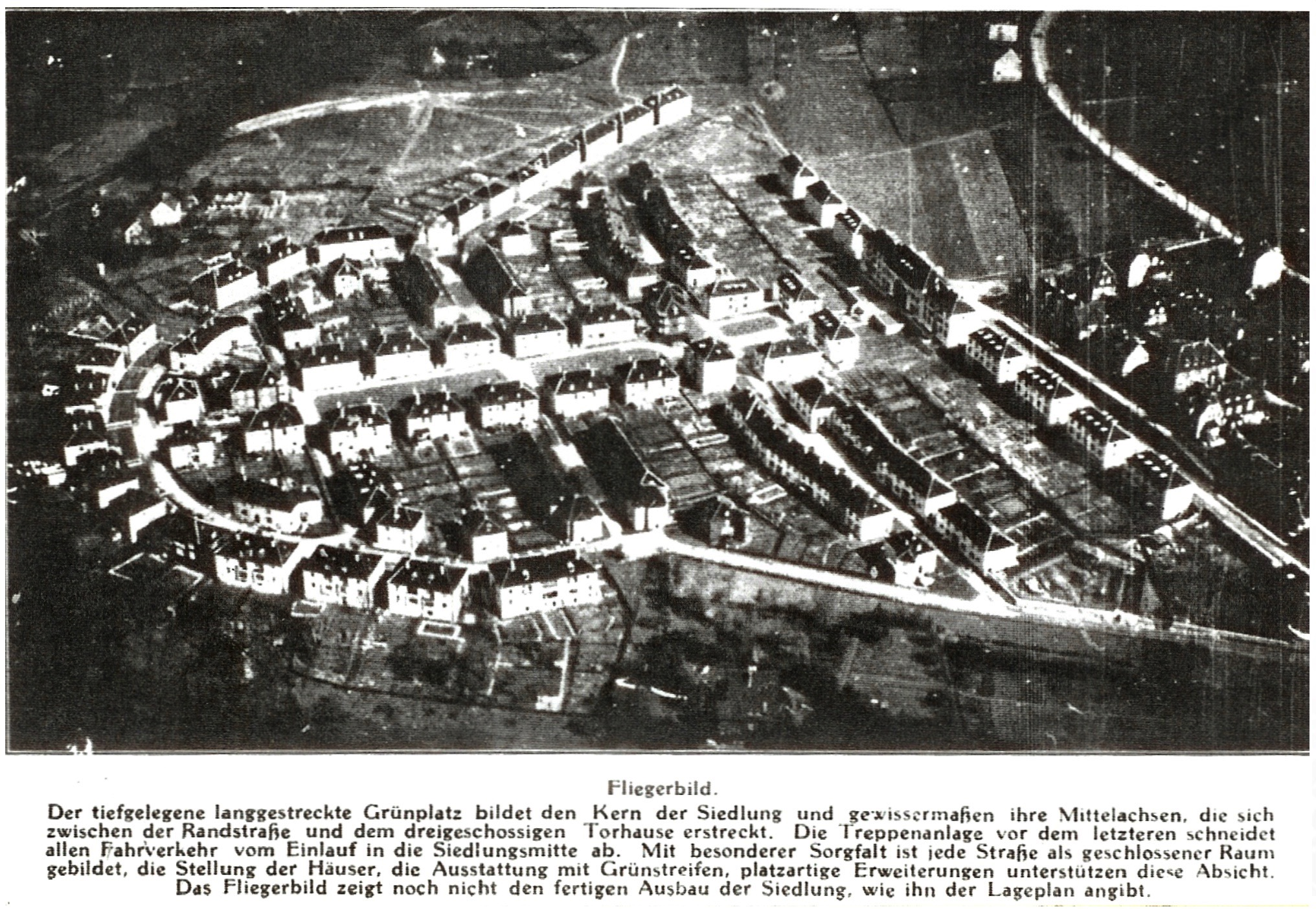 Aerial view of Siedlung Eyhof / Stadtwaldsiedlung in Essen-Stadtwald, Germany in 1928, planned by Josef Rings (1878–1957)